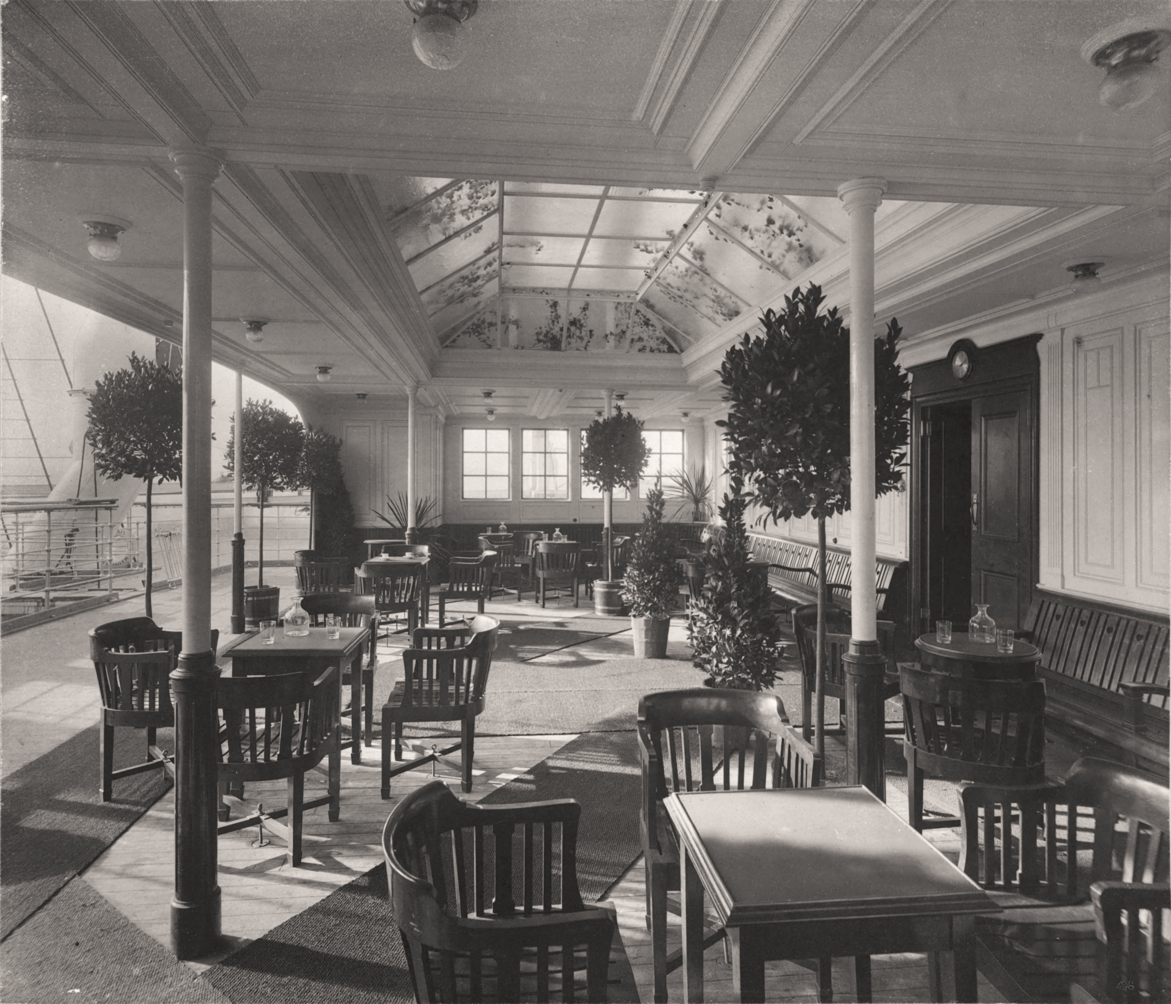 On board the RMS Mauretania, was housed this spectacular verandah café. It was situated on the boat deck where passengers could sit and drink their coffee in the open air - looking out to sea. The Mauretania was built by the shipbuilders Swan Hunter and Wigham Richardson Ltd, at the Wallsend shipyard and was one of the most famous ships ever built on Tyneside. Reference: TWAS:DS.SWH/4/PH/7/6/40 (Copyright) We're happy for you to share this digital image within the spirit of The Commons. Please cite 'Tyne & Wear Archives & Museums' when reusing. Certain restrictions on high quality reproductions and commercial use of the original physical version apply though; if you're unsure please . To purchase a hi-res copy please quoting the title and reference number.